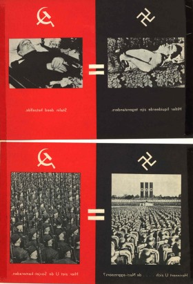 A document from the collection of Henri Max Corwin, depicting the Propaganda methods in the communist Russia and in the national-socialist Germany.